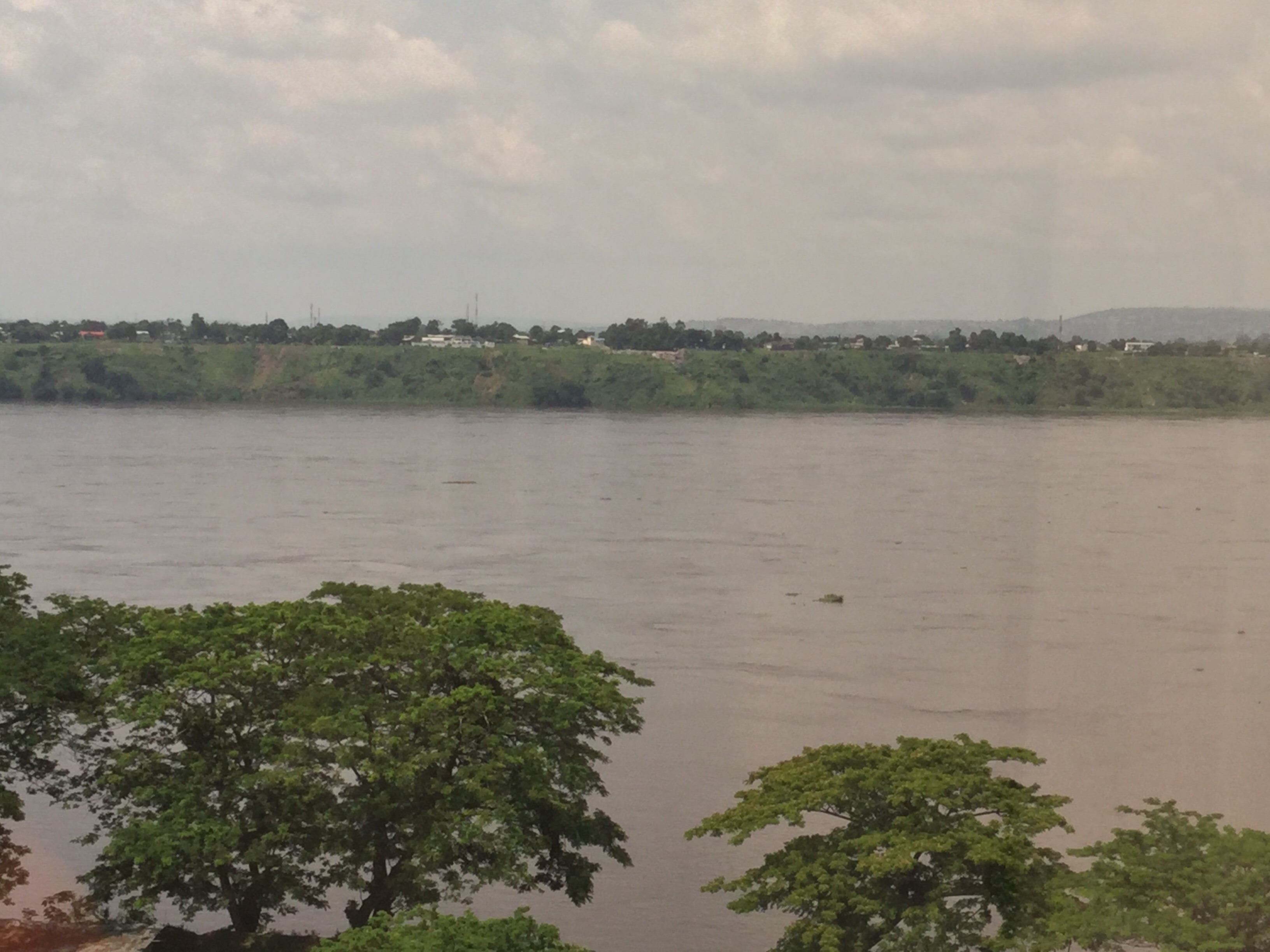 CONGO RIVER from Fleuve Congo Hotel